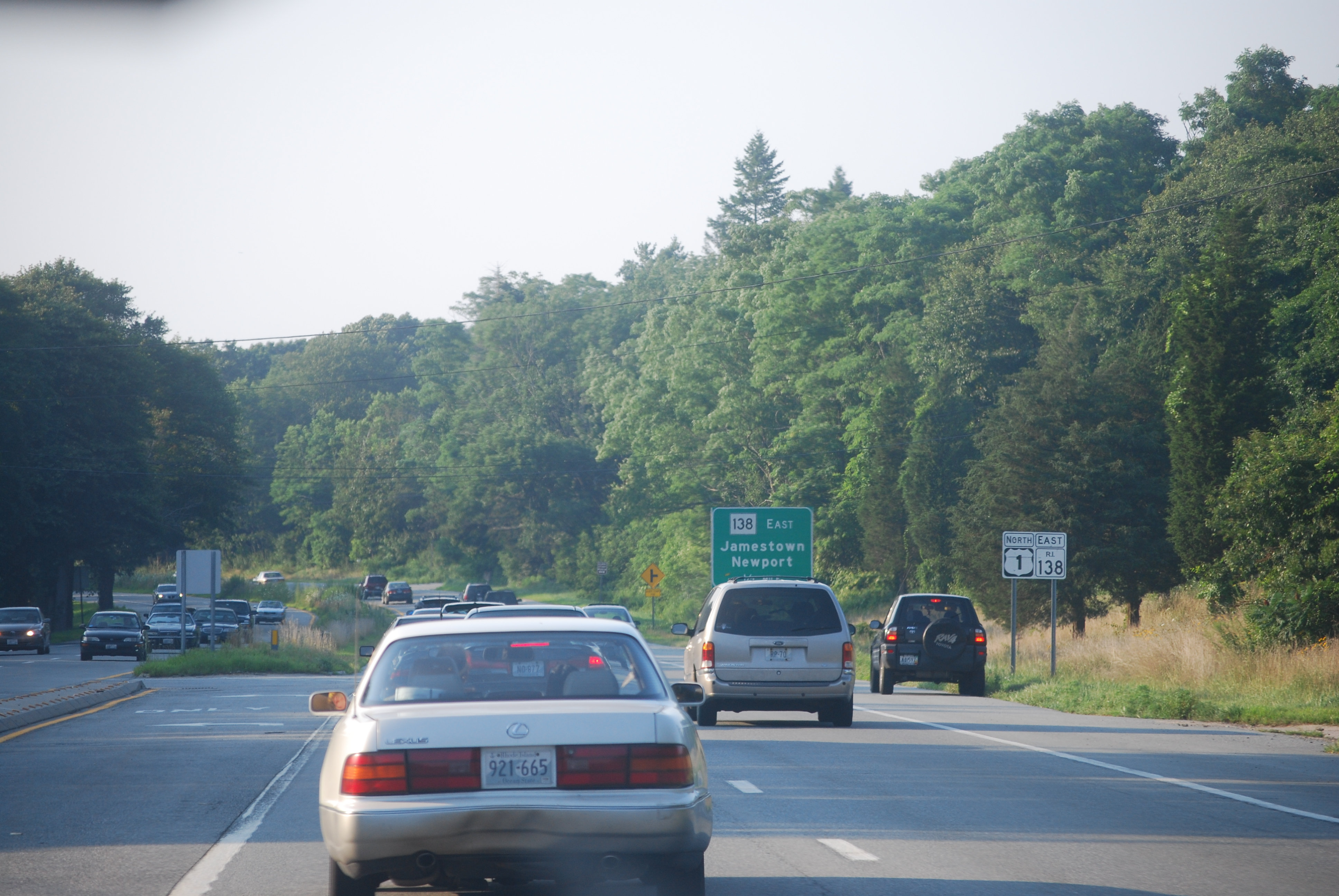 Concurrency with US 1 and RI 138 near South Kingstown, RI